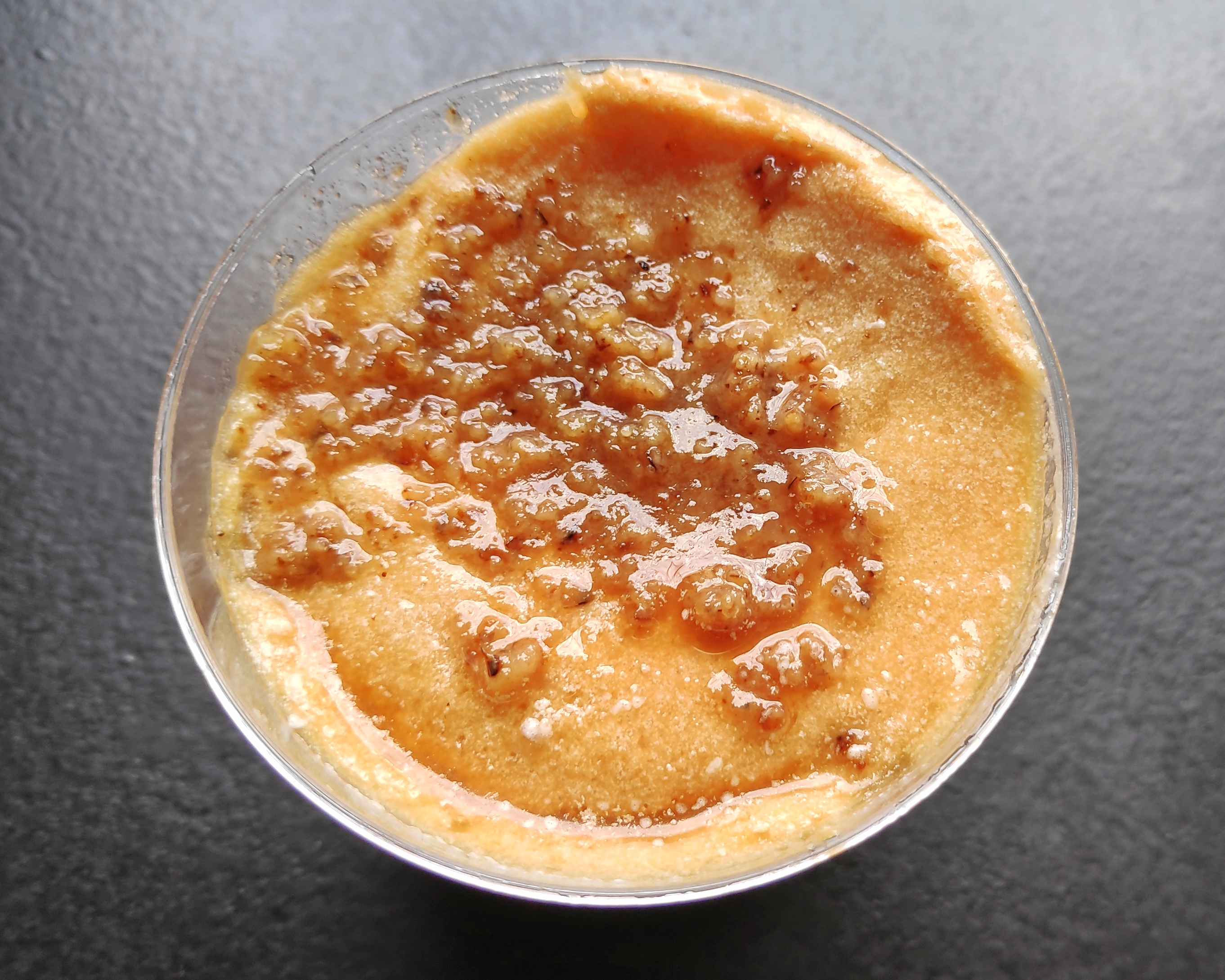 A bowl of baba de camelo (camel's drool) from "Doces de Portugal", Belo Horizonte, MG, Brazil